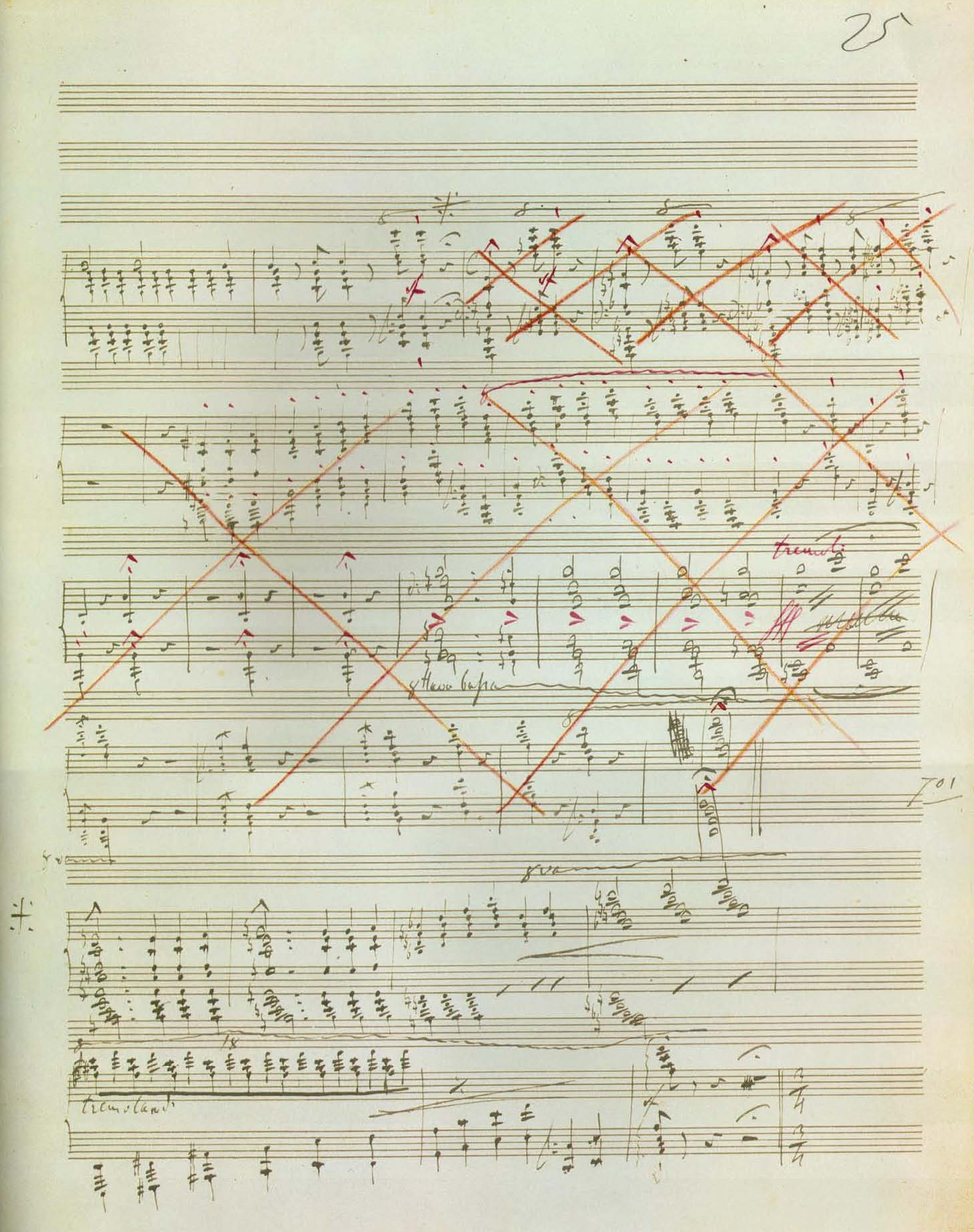 Page 25 from the manuscript of the Liszt Sonata. I (RainCity471) extracted the file from the PDF using LibreOffice Draw and cropped a bit using the GIMP. (If anyone wants me to extract another bit of the scan; let me know.)